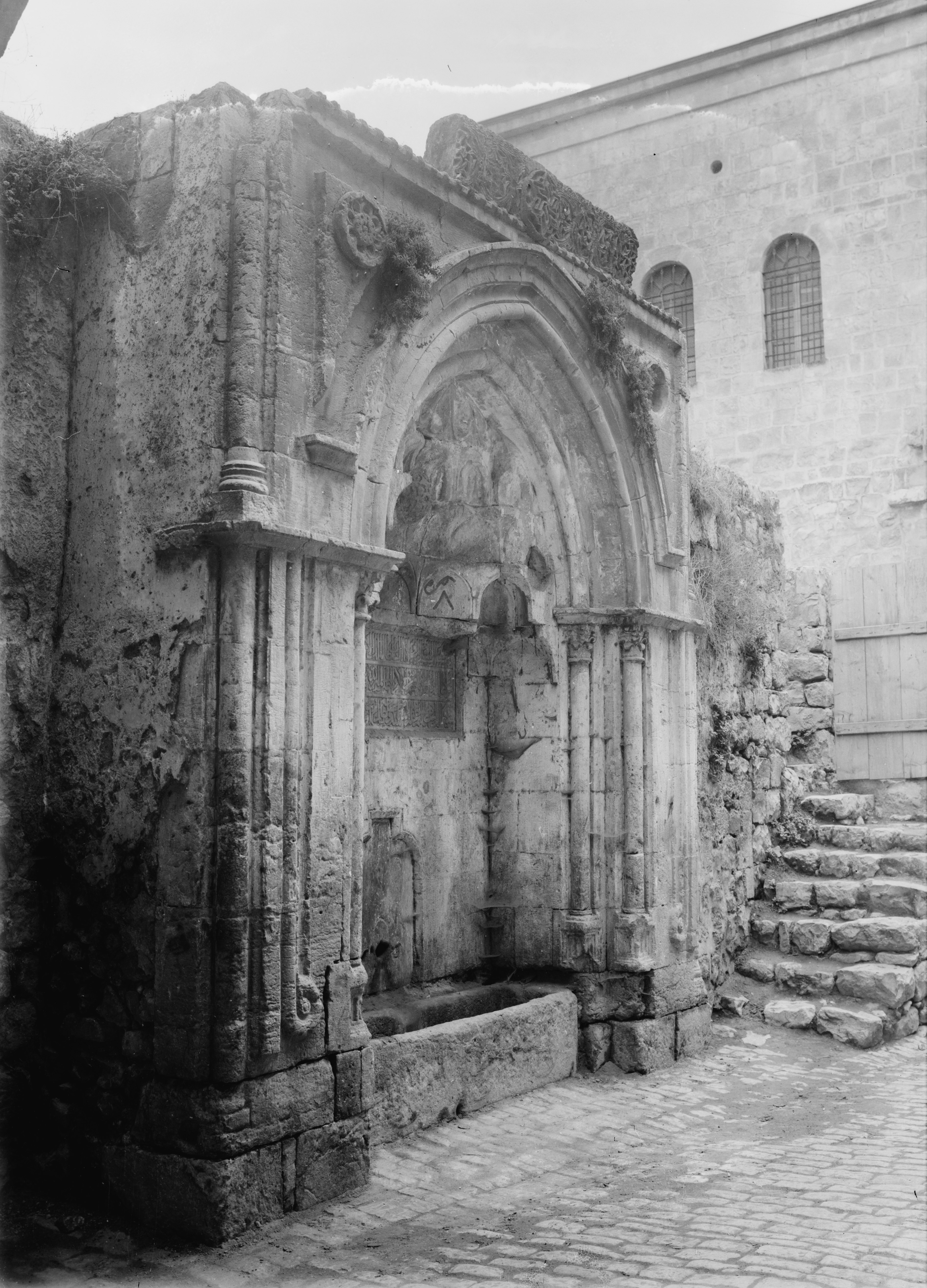 Title: A sebil (public fount) in Old City Jerusalem Abstract/medium: G. Eric and Edith Matson Photograph Collection Physical description: 1 negative